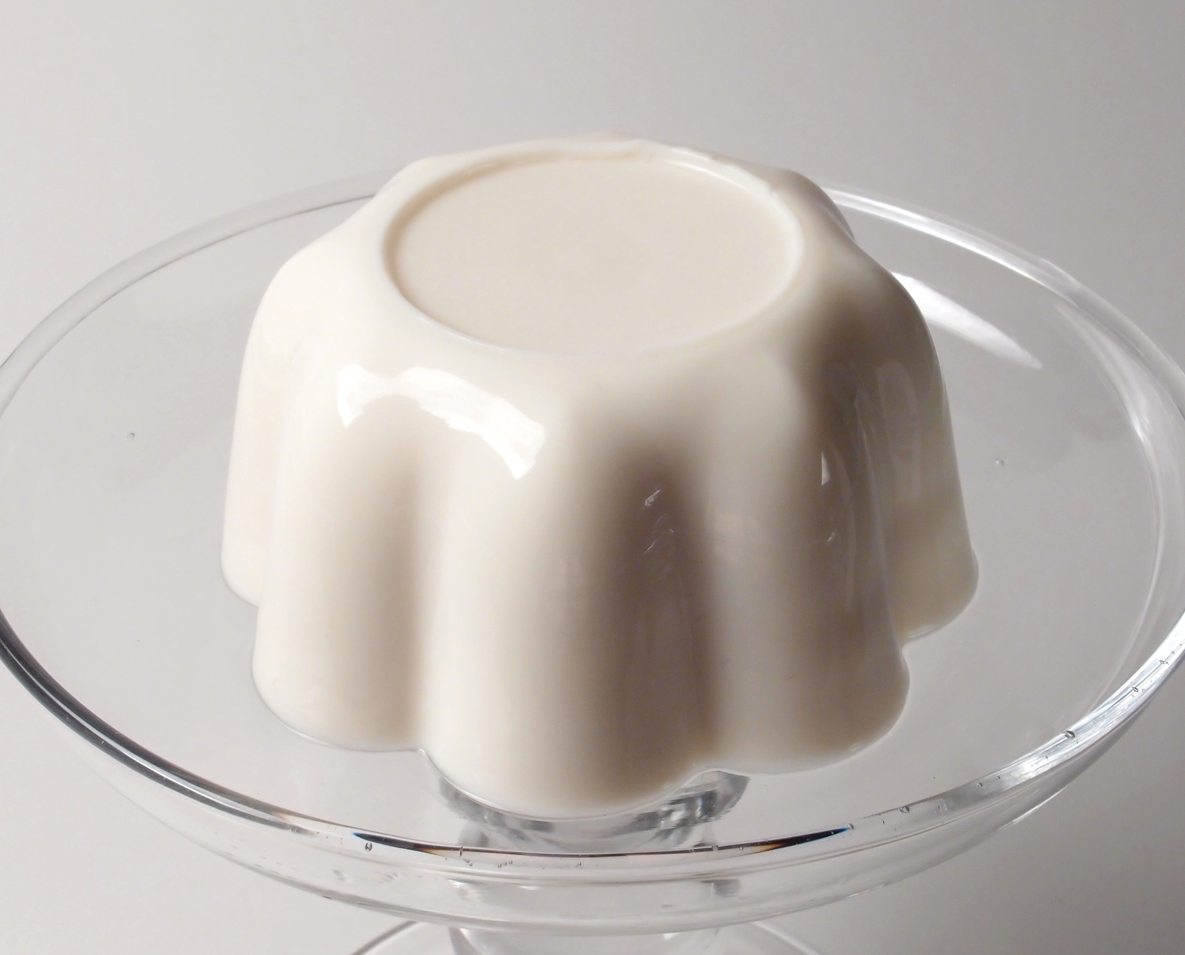 A serving of blanc-manger, made according to a rather purist recipe, containing only almonds, water, milk, sugar and gelatin. This is not English-style, cornflour thickened blancmange, but rather the almond jelly known in the classic French cuisine.